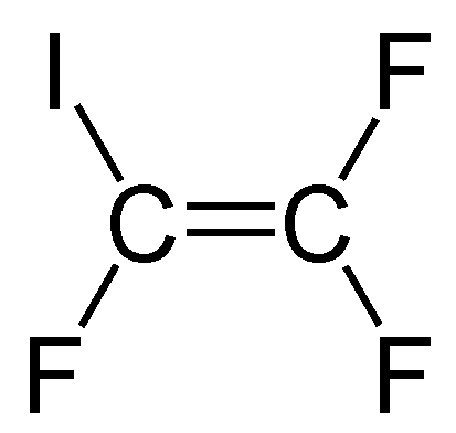 The structure of Dichlorodifluoroethylene